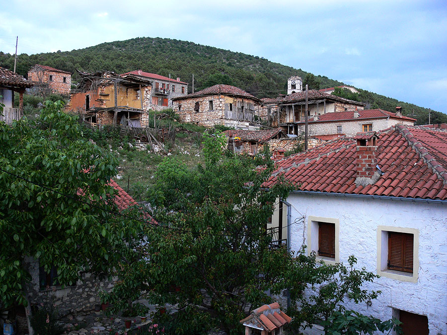 Village of Psarades (Nivici), Florina(Lerin) prefecture, Greece